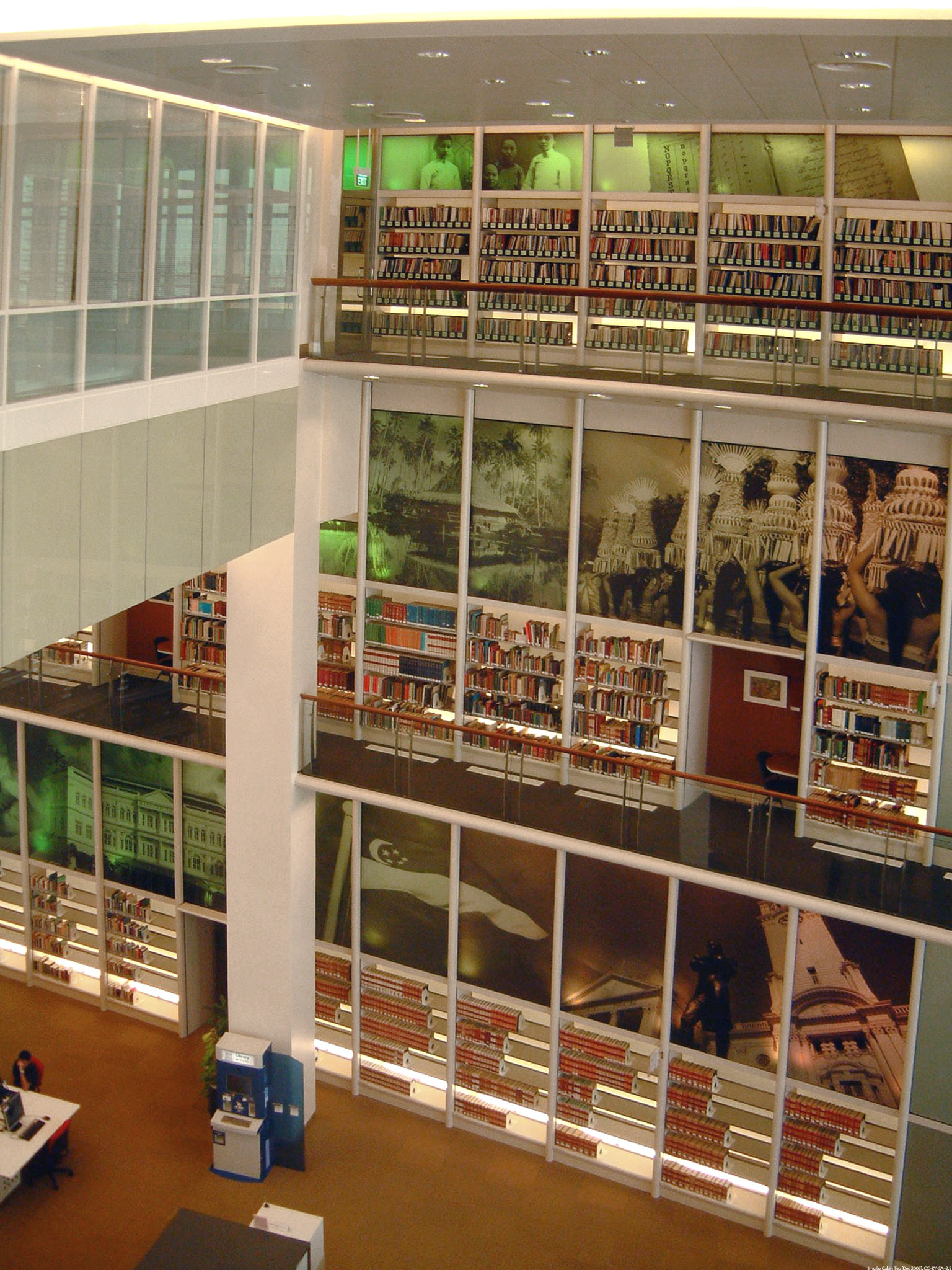 Singapore and South East Asian Collections, Lee Kong Chian Reference Library, National Library of Singapore (Taken with permission) Img by Calvin Teo, December 2005